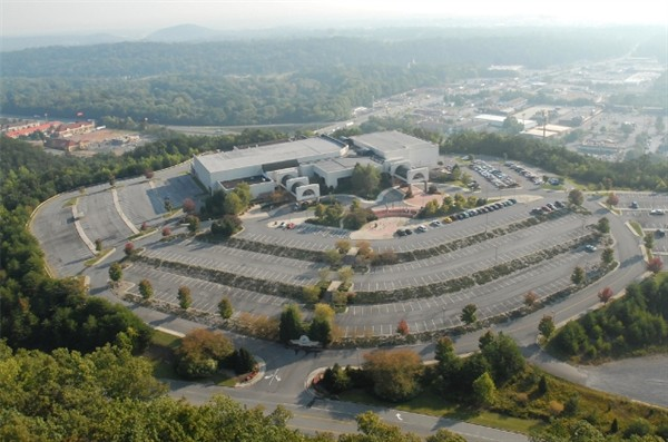 Trade Center in Dalton,GA